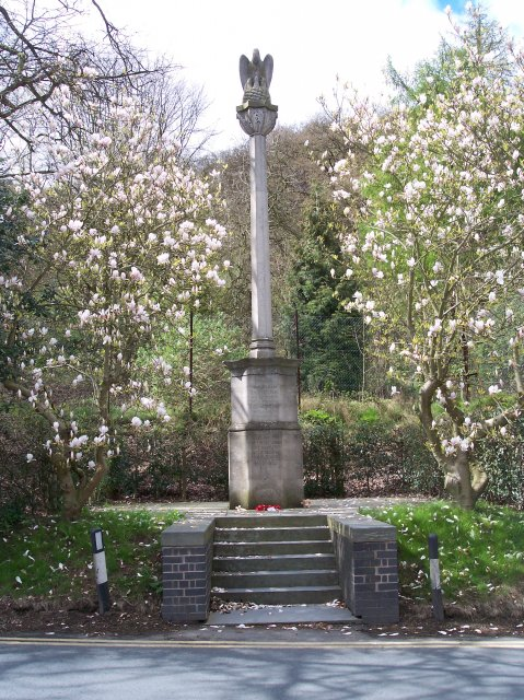 Malvern Wells War Memorial. The design by Mr. C. F. A. Voysey depicts a column of Portland Stone supporting a pelican feeding her young with her blood.